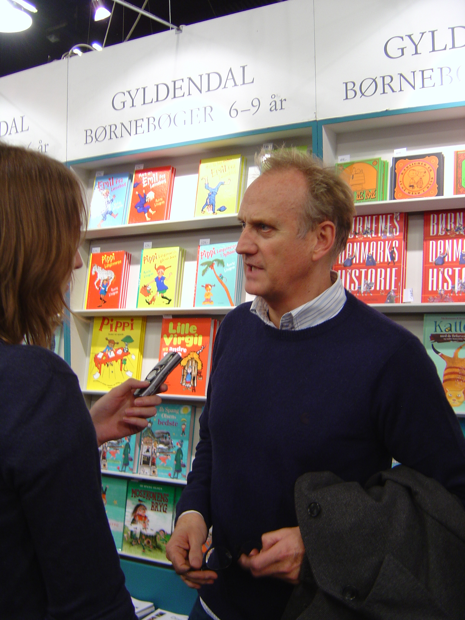 Søren Pilmark - a Danish actor and film director being interviewed about his new book, called Ørkenens sønner, Bogen, on 14 November 2008 at the yearly Danish book fair, BogForum (November 14-16, 2008), in Forum Copenhagen.